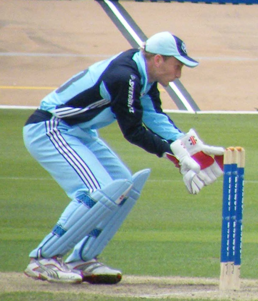 NSW Cricketer Peter Neville and Tasmania mark Divin - NSW v Tasmania, Hurstville Oval. Saturday 29 November 2008.